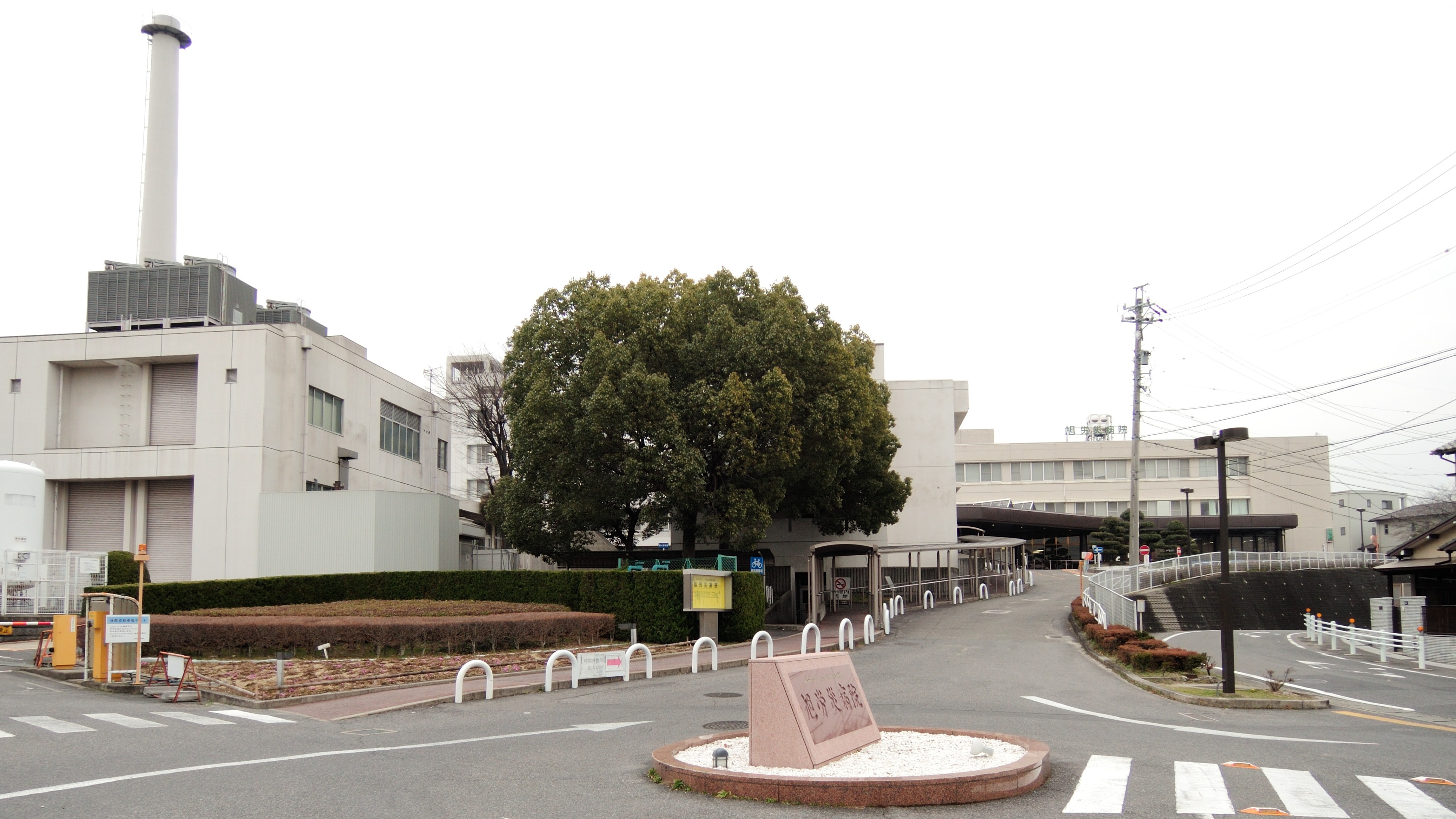 Asahi Rosai Hospital,Aichi prefecture,Japan